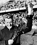 Torbjörn Jonsson, Guldbollen winner 1960